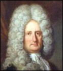 Portrait of Luigi Ferdinando Marsili (or Marsigli) (1658-1730), geologist and general